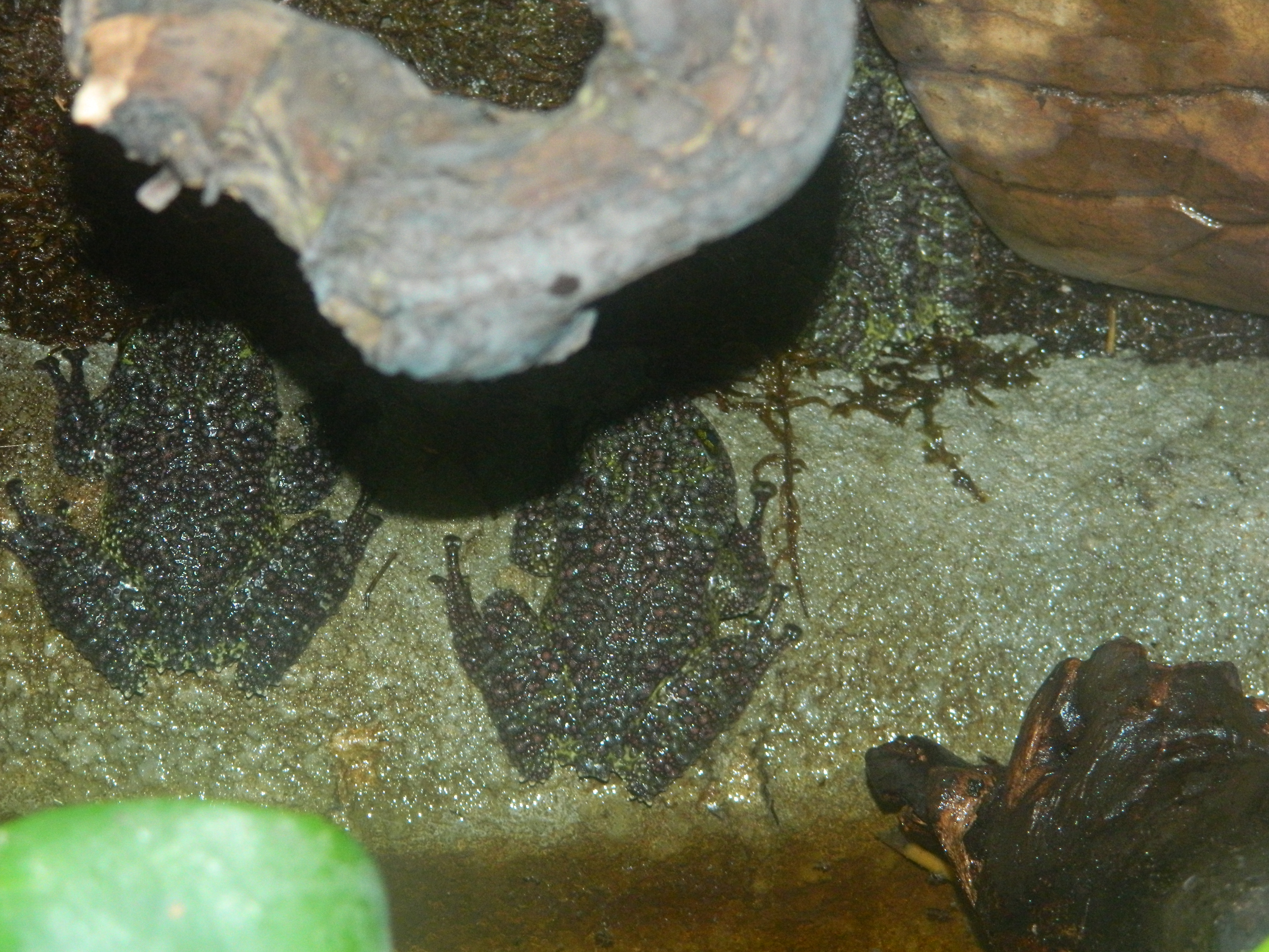 Three Vietnamese mossy frogs (Theloderma corticale) stay close together for protection.